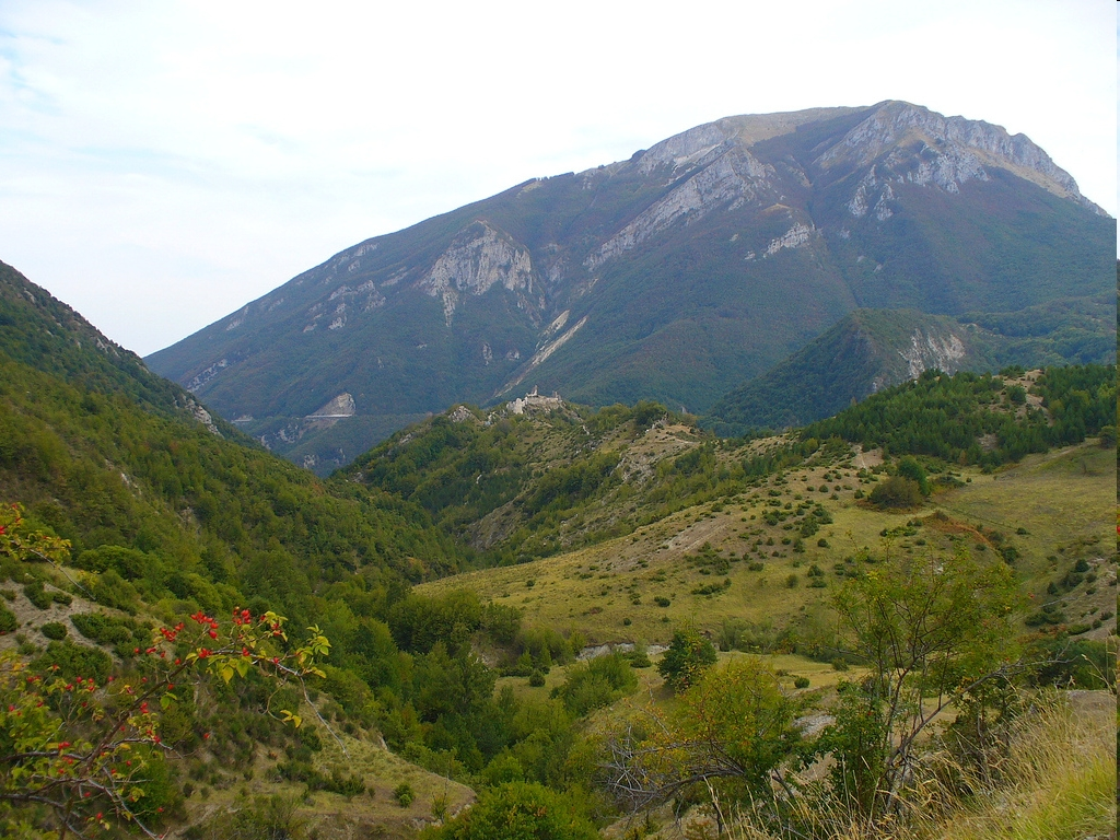 Habitat of Short-Toed-Eagle ( Gran Sasso - Italy)